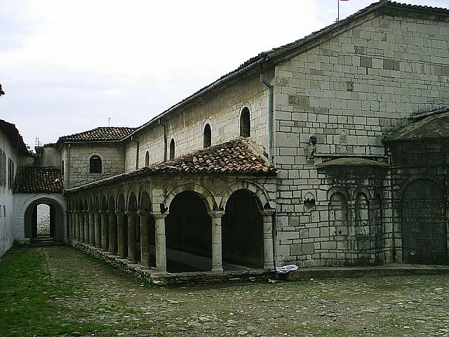 St. Mary's Church, City of Elbasan, Albania